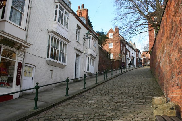 The Steep The appropriately named Steep Hill in Lincoln